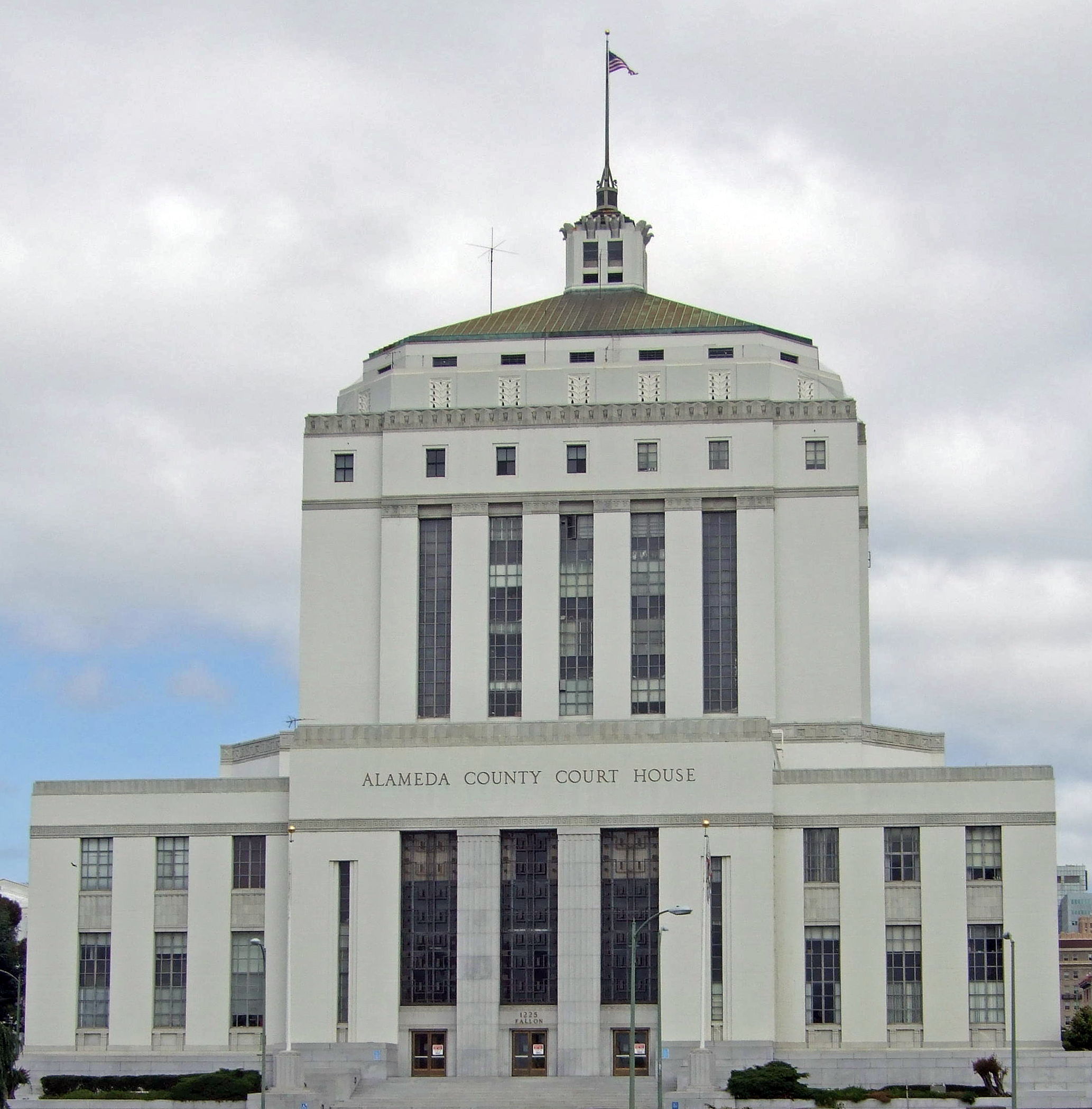 The Alameda County courthouse in Oakland, California, USA.